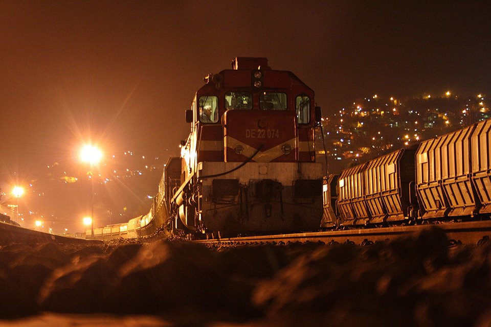 A DE22000 class locomotive with a freight train at Zonguldak.